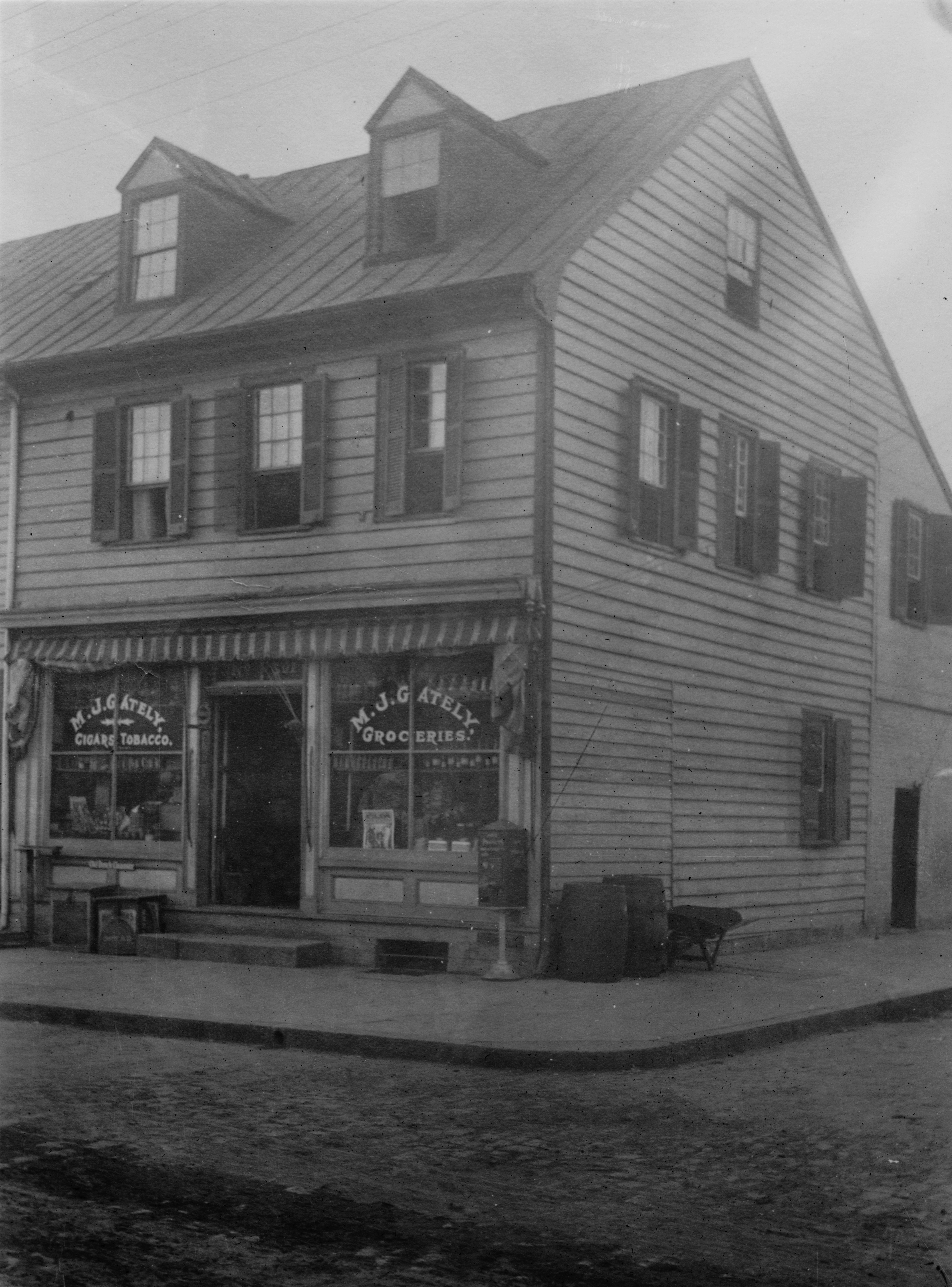 John Paul Jones House, Fredericksburg, Va., as it appeared ca. 1910-1915 when it was used as a grocery store